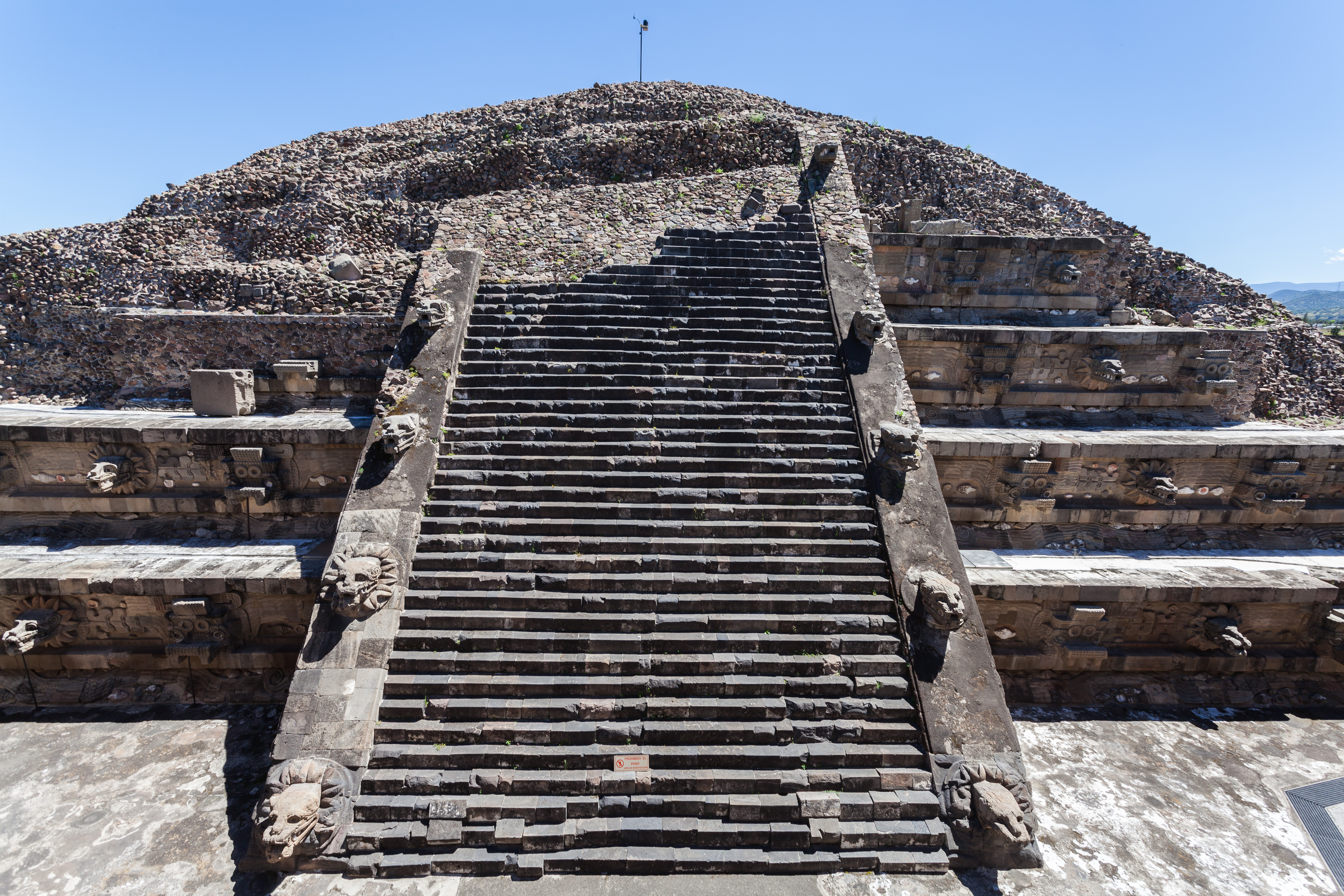 La Ciudadela, Teotihuacán, Mexico